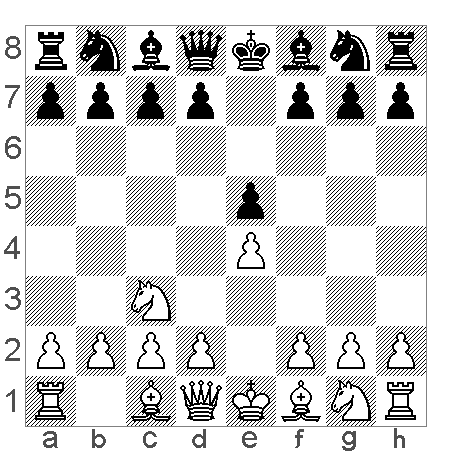 chess diagram Vienna game Source: CBlight + my processing